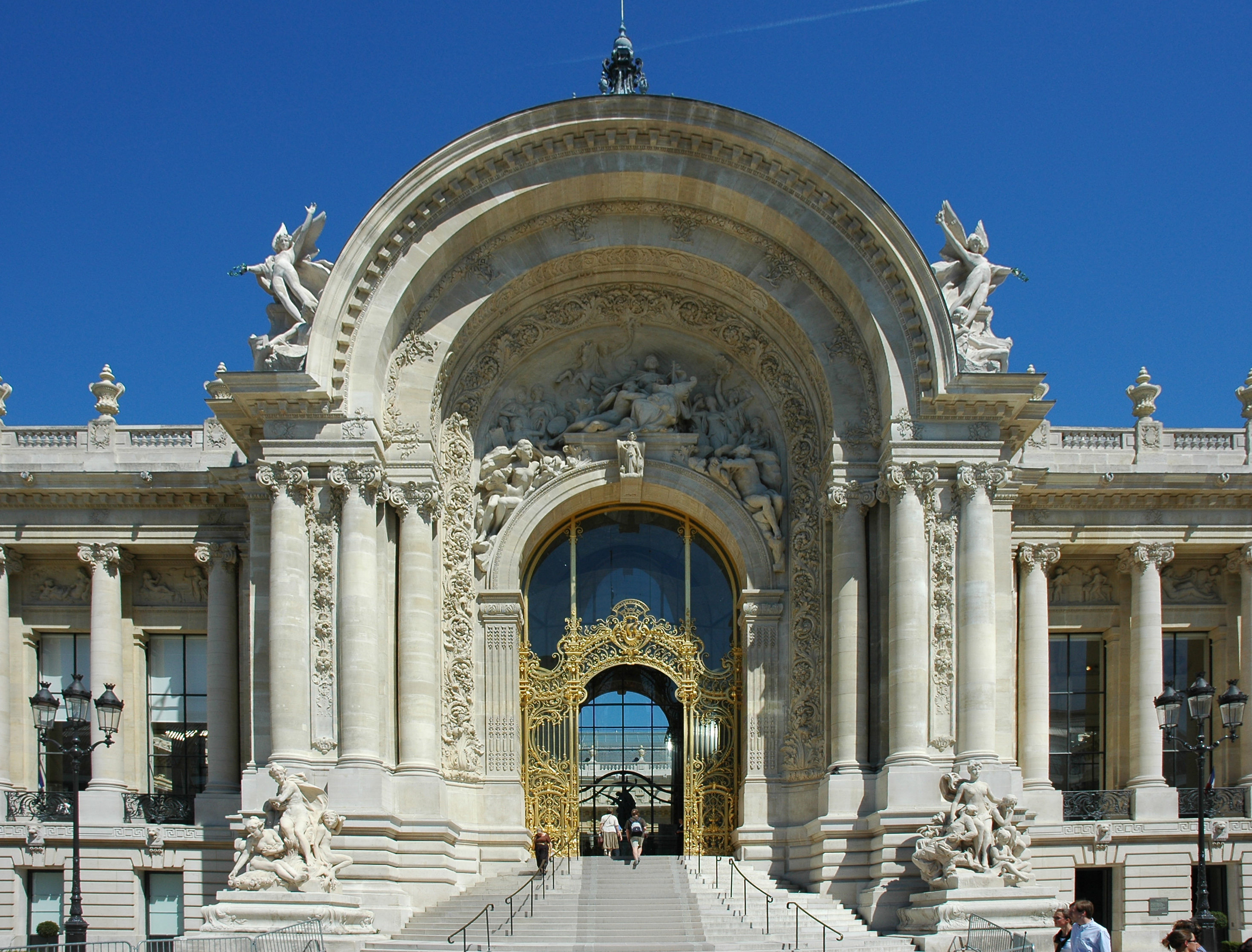 Main entrance of Petit Palais, Paris, France.